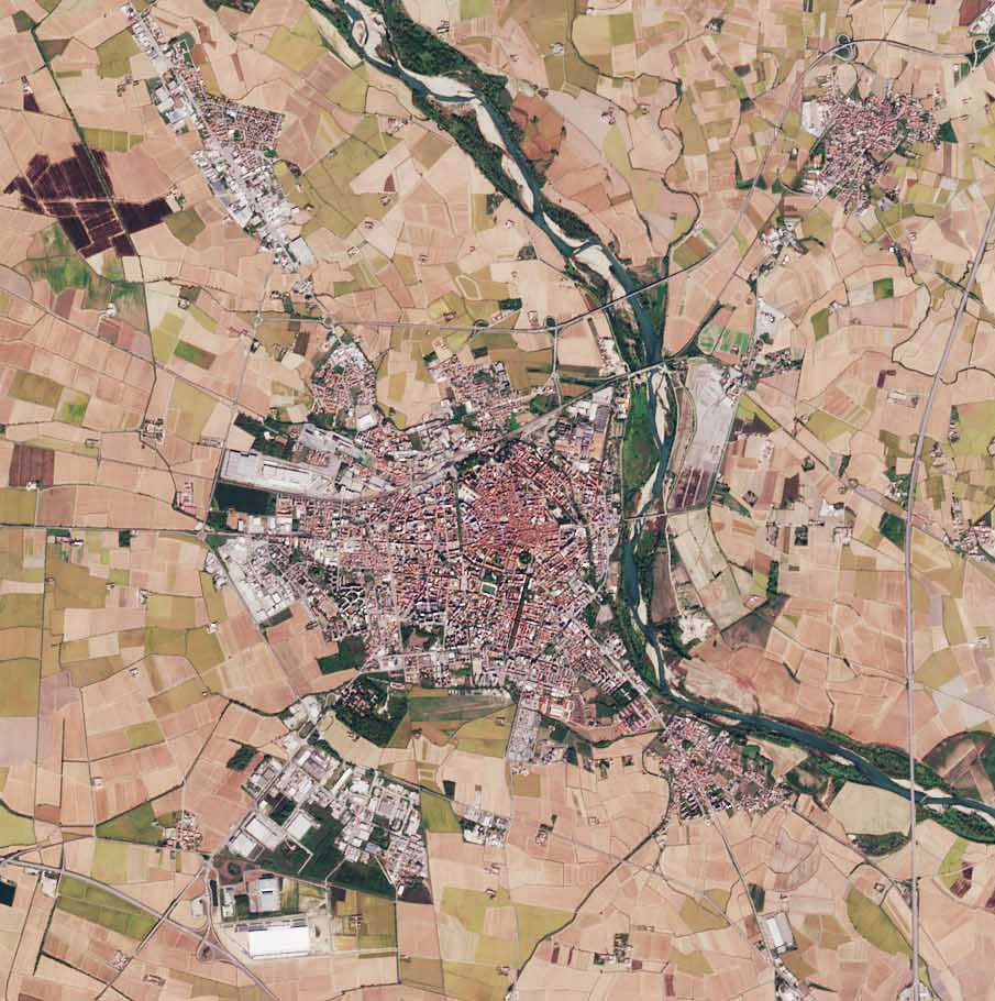 The Copernicus Sentinel-2B satellite takes us over the Italian Alps and down to the low plains that surround the city of Milan. The image captures the transition between the high snow-capped peaks of the Italian Alps and the flatlands of the northwest Po Valley. This transition cuts a sharp diagonal across the image, with the mountains in the top left triangle and the flat low-lying land in the bottom right. The southern part of the beautiful Lake Maggiore can also be seen in the image. Although its northern end crosses into Switzerland, Lake Maggiore is Italy’s longest lake and its character changes accordingly. The upper end is completely alpine in nature and the water is cool and clear, the middle region is milder lying between gentle hills and Mediterranean flora, and the lower end advances to the verge of the plain of Lombardy. The River Ticino, which rises in Switzerland and flows through Lake Maggiore, can be seen emerging from the lake’s southern tip. Here, the land, which is one of the most fertile regions in Italy, gives way to numerous agricultural fields, which are clearly visible to the west of the river. The city of Milan lies to the east of the river. In May 2019, Milan will host ESA’s Living Planet Symposium. Held every three years, these symposia draw thousands of scientists and data users from around the world to discuss their latest findings on the environment and climate. This image, which was captured on 9 October 2017, is also featured on the Earth from Space video programme . contains modified Copernicus Sentinel data (2017), processed by ESA, CC BY-SA 3.0 IGO